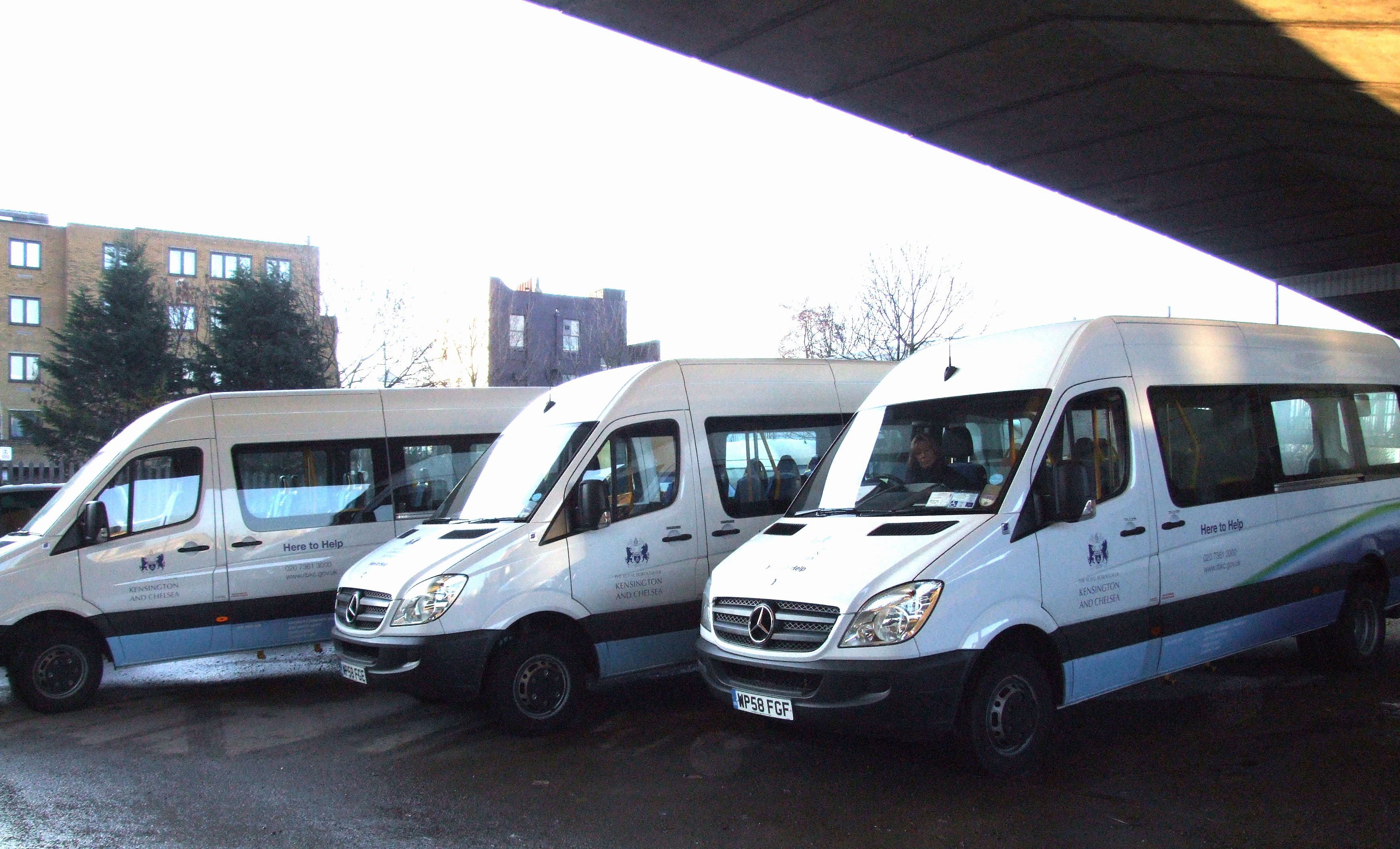 Social services transport in Kensington and Chelsea, London, England, operated by HCT Group. For London Borough of Kensington and Chelsea.